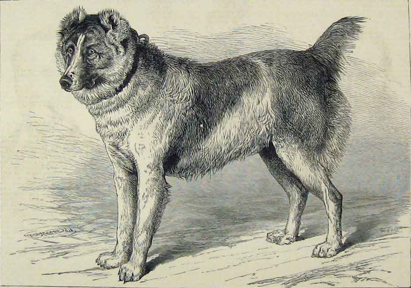 "Shere Alli" an "Afghan Mastiff" at Birmingham Dog Show